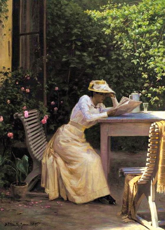 A lady reading in the garden